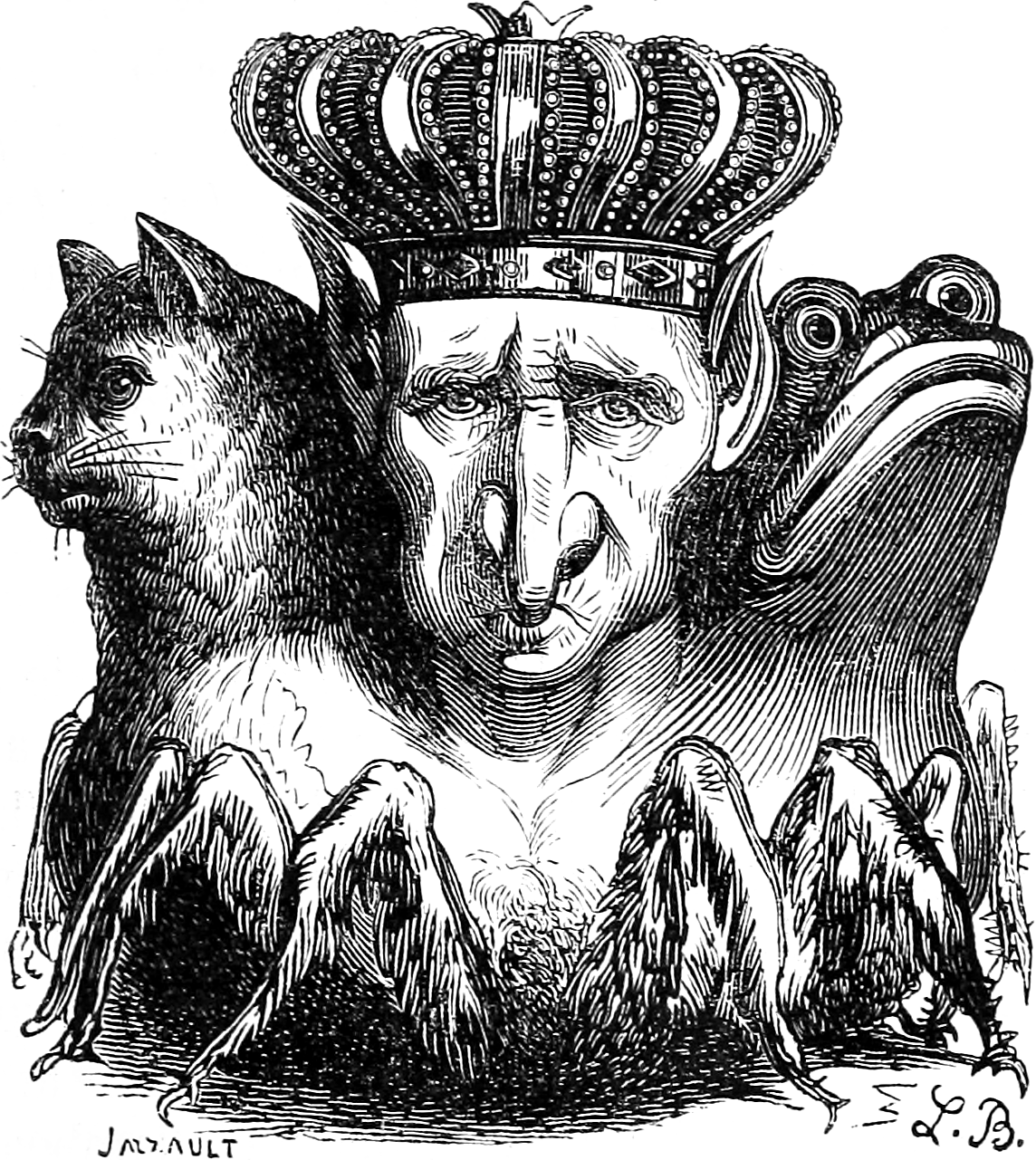 Bael, Medium woodblock, from J.A.S. Collin de Plancy. Dictionnaire Infernal. Paris: E. Plon, 1863. Page 71. Note: Demon described in le Grand Grimoire as being high among the infernal powers....he teaches those that invoke him to disappear at will.